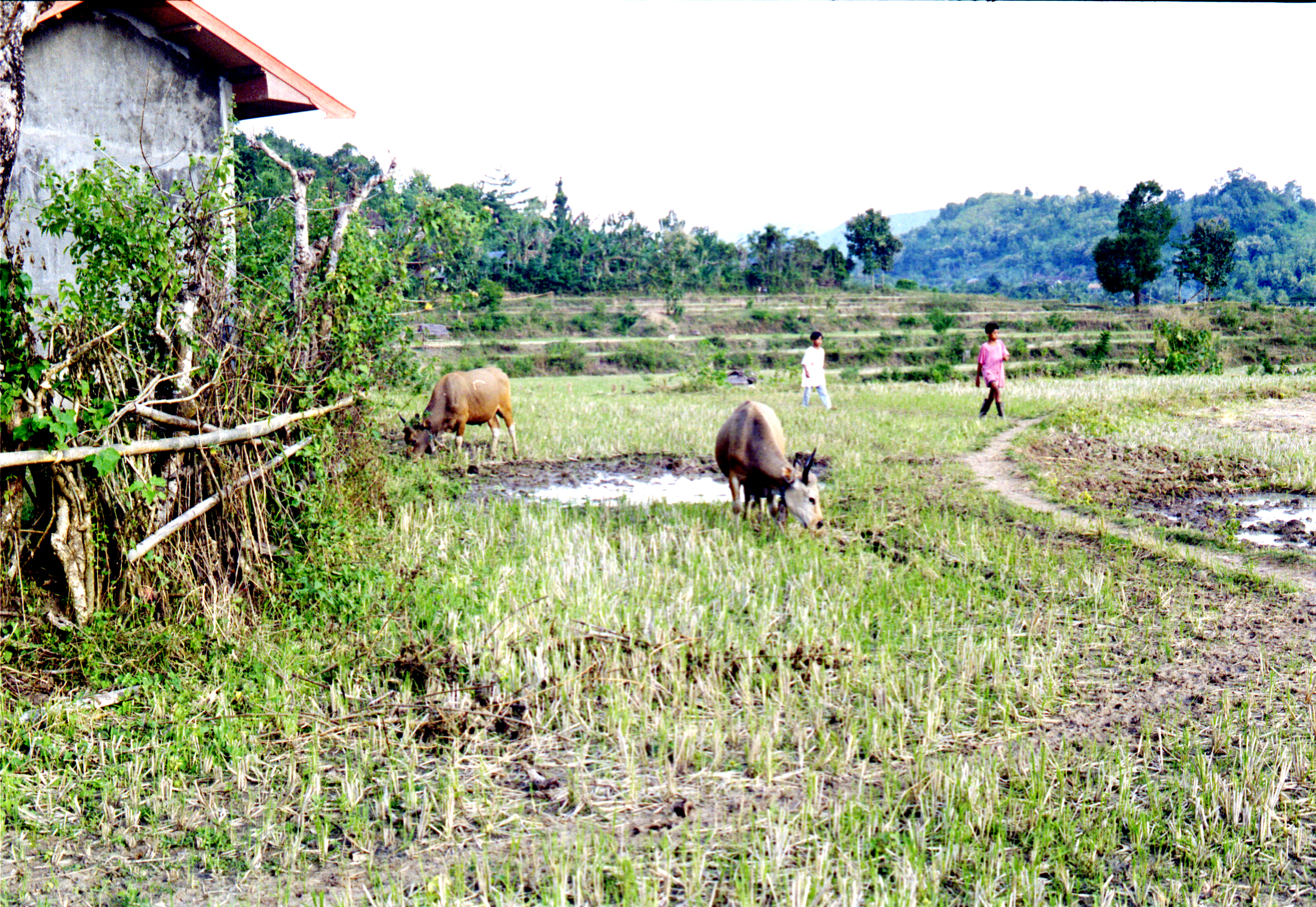 Rice fields, Sumbawa